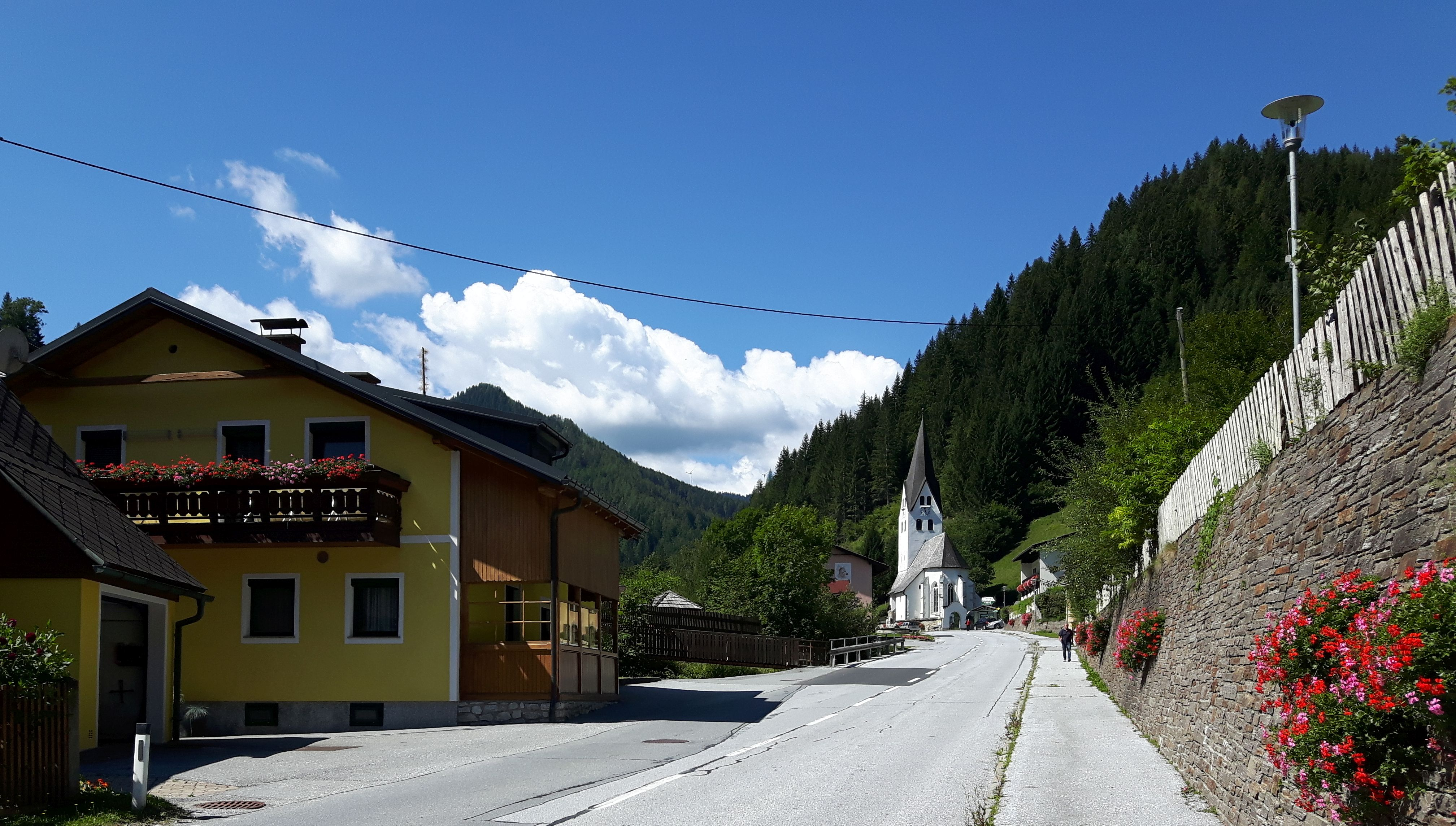 The village Salla